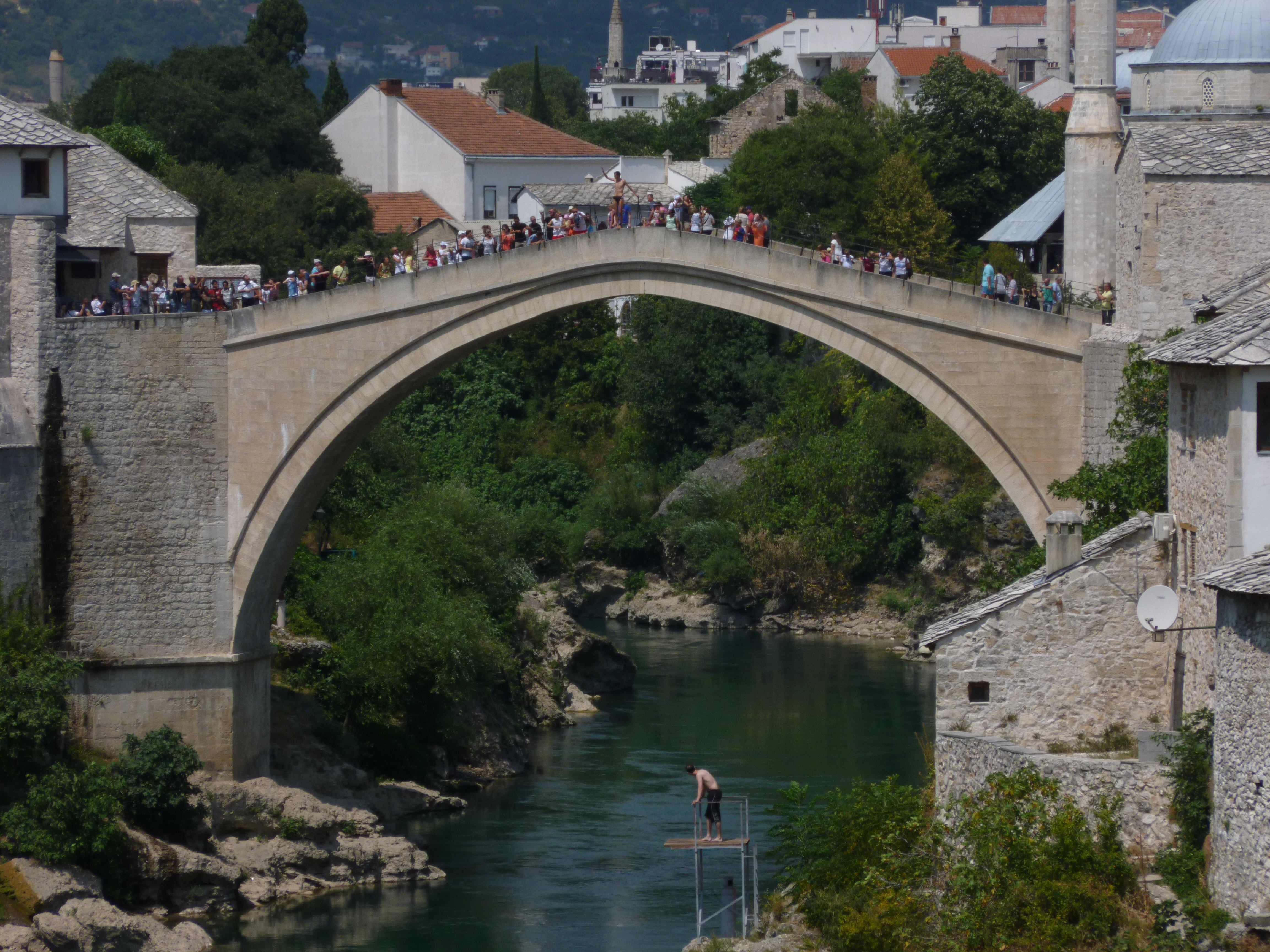 The Old Bridge, dating from 1566, is the heart of the city and a traditional place to hang around - also to jump from (and there's another jumper below) in Mostar, Bosnia & Herzegovina